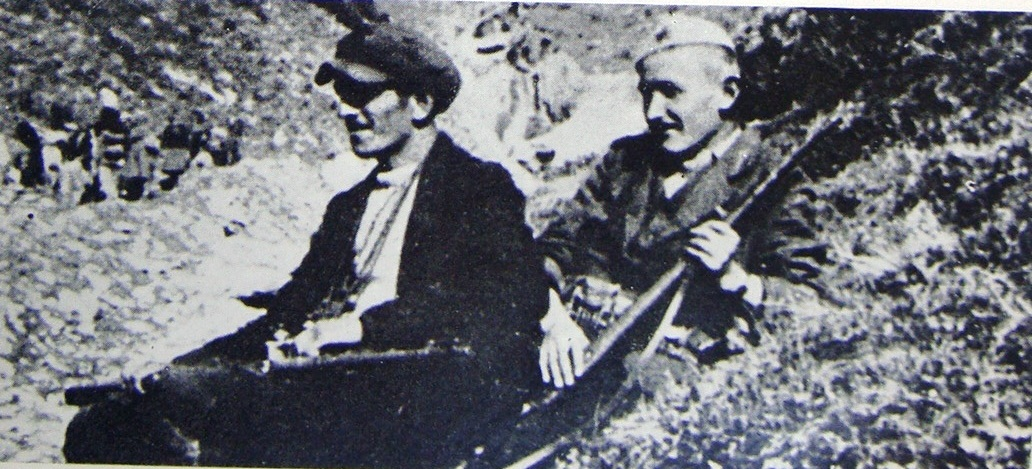 Forming of the Sharplaninski partisans detachment, in October 1942, at the Shar Mountain. This media file is produced by Wikipedian in Residence in Category:Wikipedian in Residence at DARM in 2016.